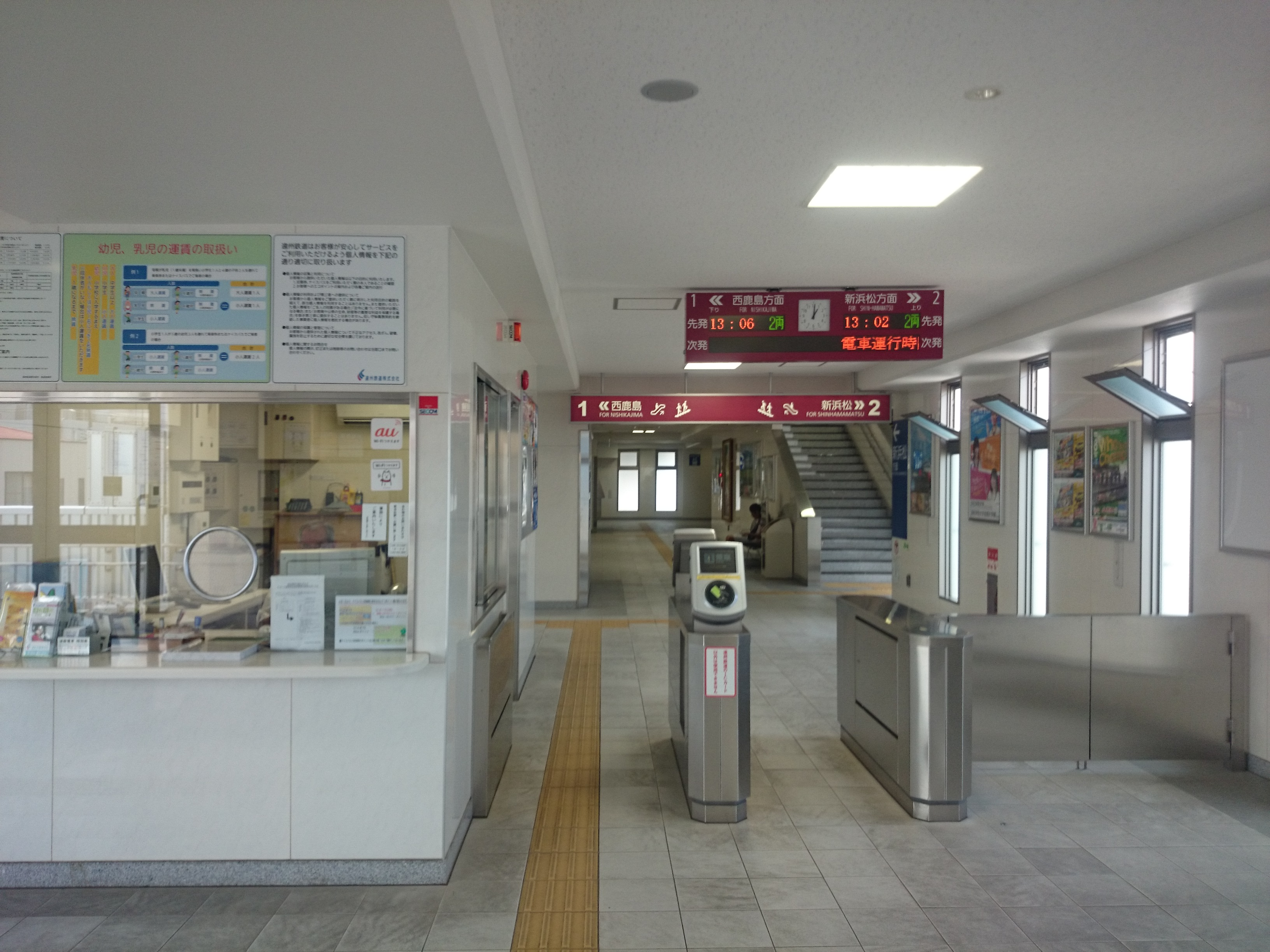 The ticket barriers at Sukenobu Station